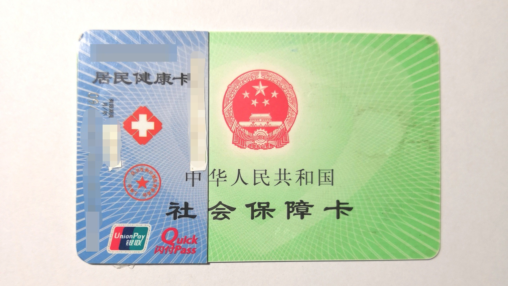 A Social Security Card (Shanghai Electronic Card of Student Status issued by Shanghai Education Committee), with a National Resident's Health Card issued by a district's Health and Family Planning Committee of Shanghai (with seal on it) and CCB branch.